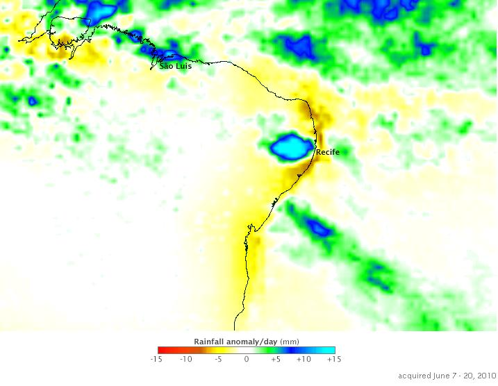 This color-coded map shows rainfall anomalies for the region from June 7 to June 20, 2010. The rainfall amounts for this two-week period are compared to average merged satellite rainfall amounts for the same dates from 1998 to 2009. Observations are calibrated using observations from the Tropical Rainfall Measuring Mission (TRMM). Above-average rainfall amounts appear in green and blue, with turquoise indicating the heaviest precipitation. Slightly below-normal rainfall amounts appear in yellow. A pocket of exceptionally heavy rain occurs near the city of Recife. Areas of heavy rain also occur near the city of São Luis.